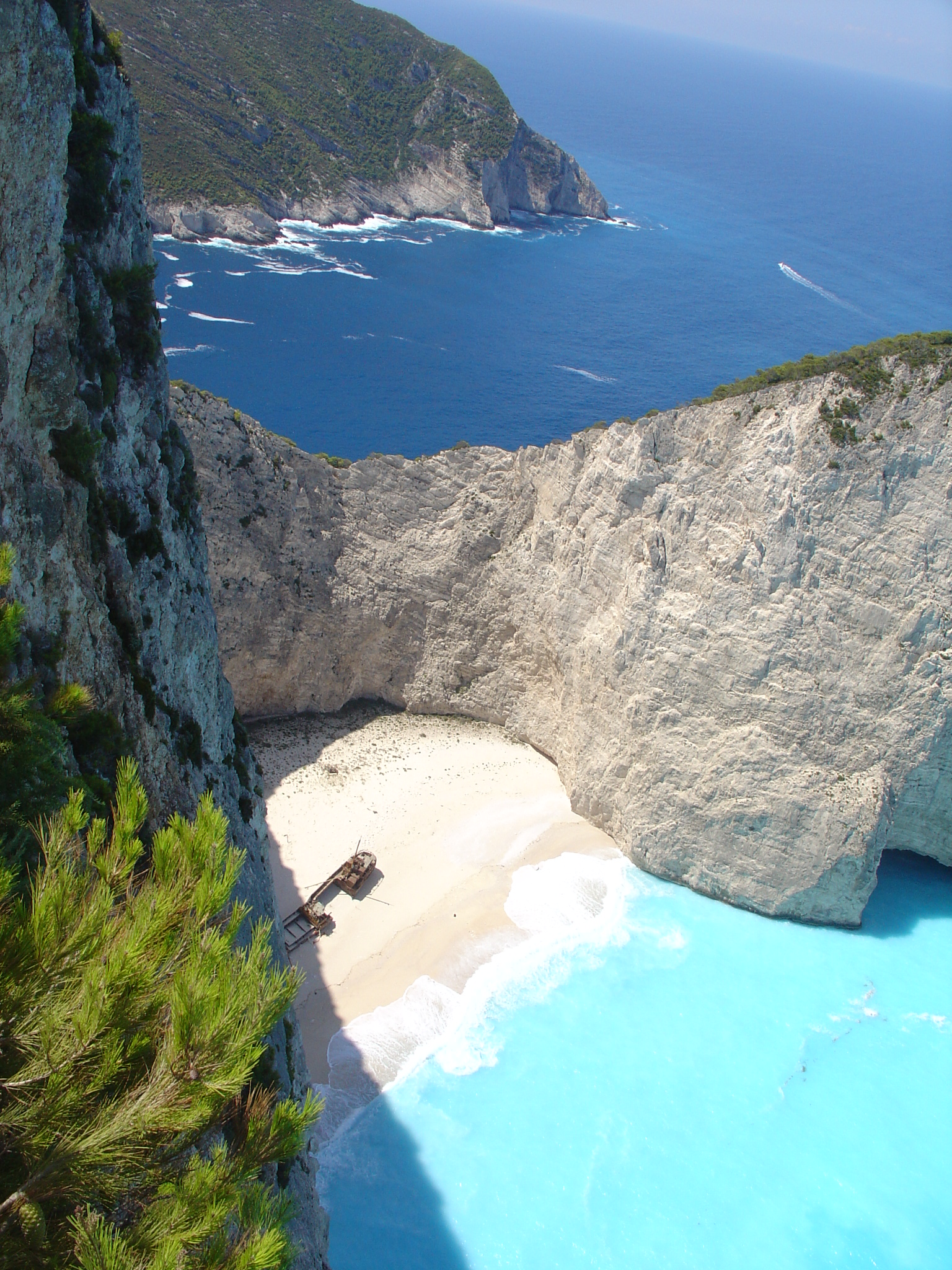 The famous shipwreck beach in Zante, Greece